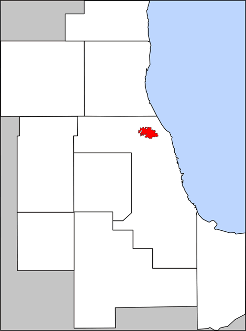 Location of Glenview in Chicagoland. Created with Macromedia Fireworks 4 PNG-8 Websnap adaptive color palette 179 colors